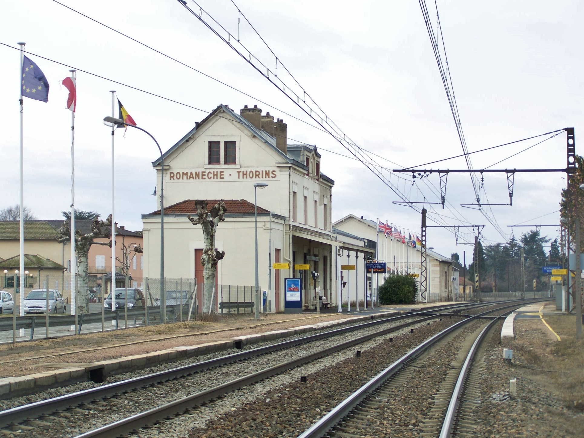 Sight of platforms, tracks and building of Romanèche-Thorins railway station, between Lyon and Mâcon in Saône-et-Loire, France.